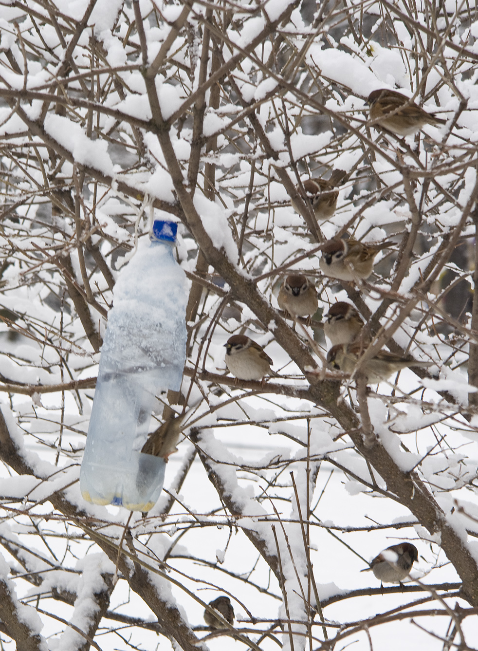 Eurasian Tree Sparrows (Passer montanus) and a few House Sparrows (Passer domesticus) by a bird feeder, in Saint Petersburg, Russia